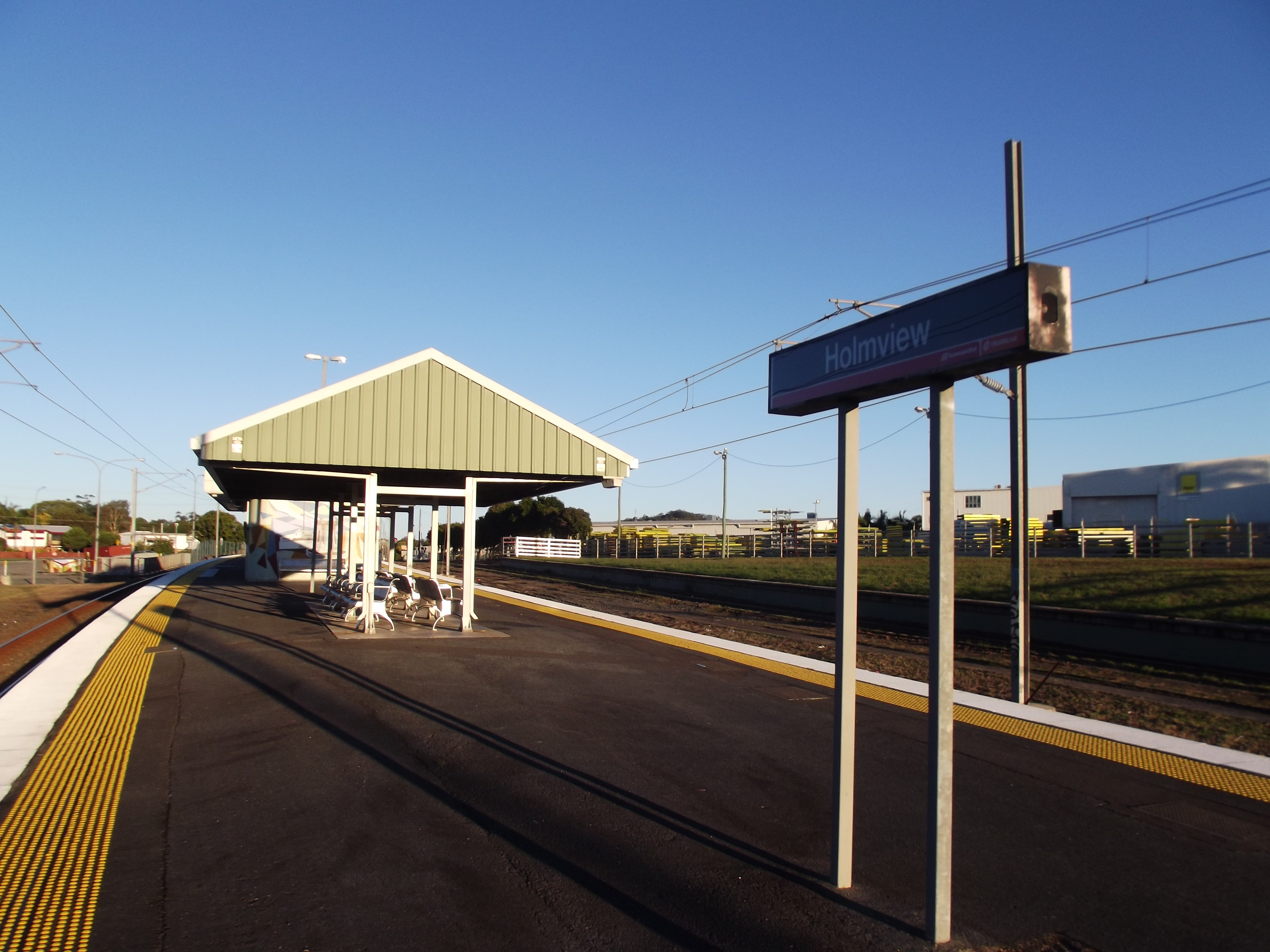 A photo of the Holmview railway station, operated by TransLink, located in Logan City, Queensland.